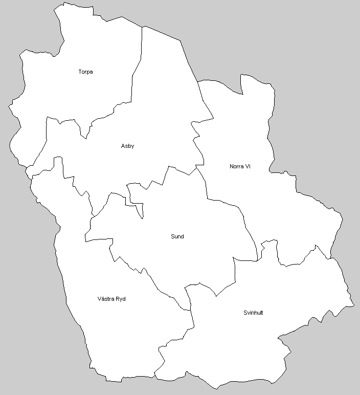 Parishes in Ydre municipality